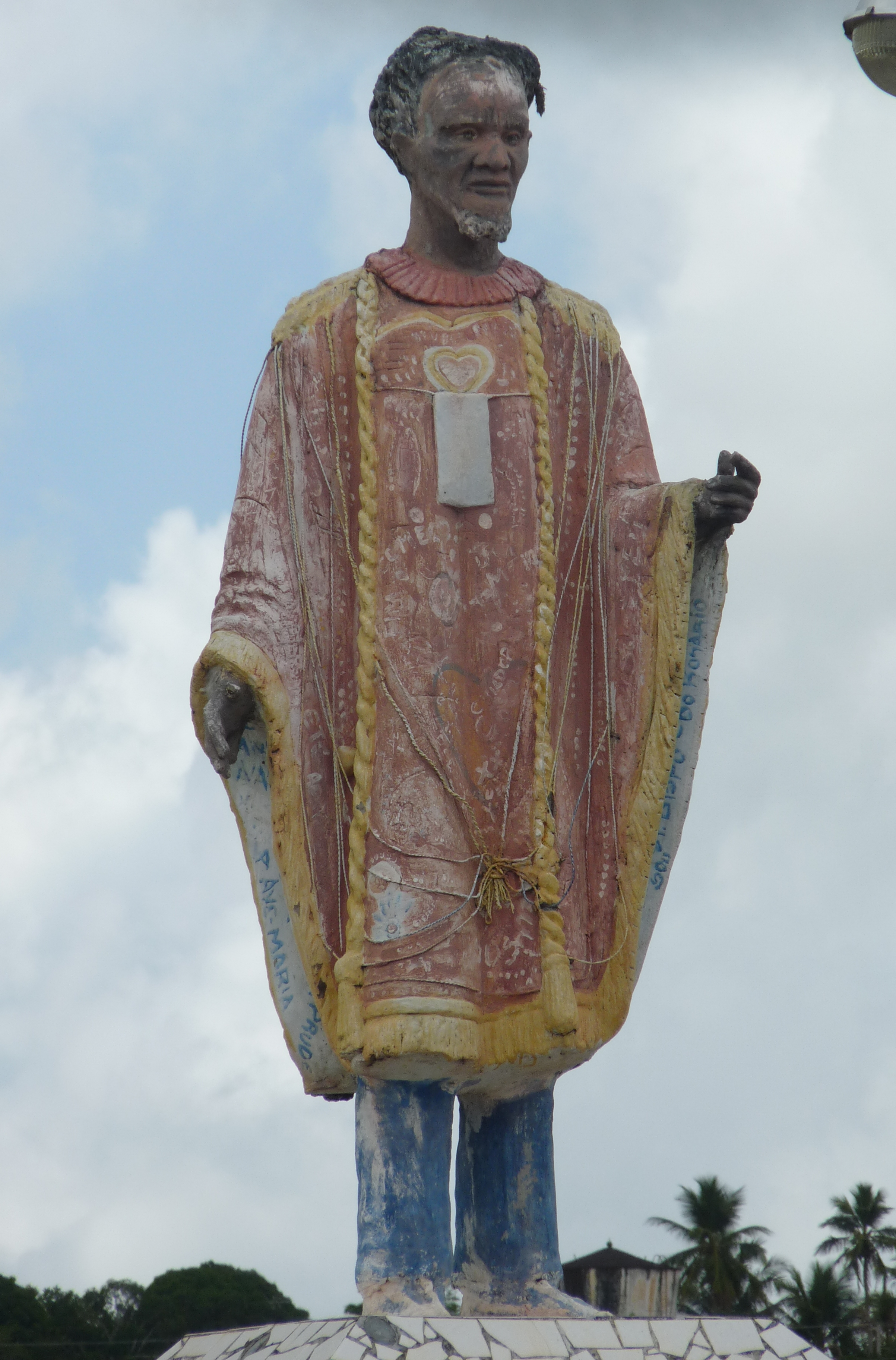 Statue of Arthur Bispo do Rosário in his city of birth, Japaratuba, Brazil